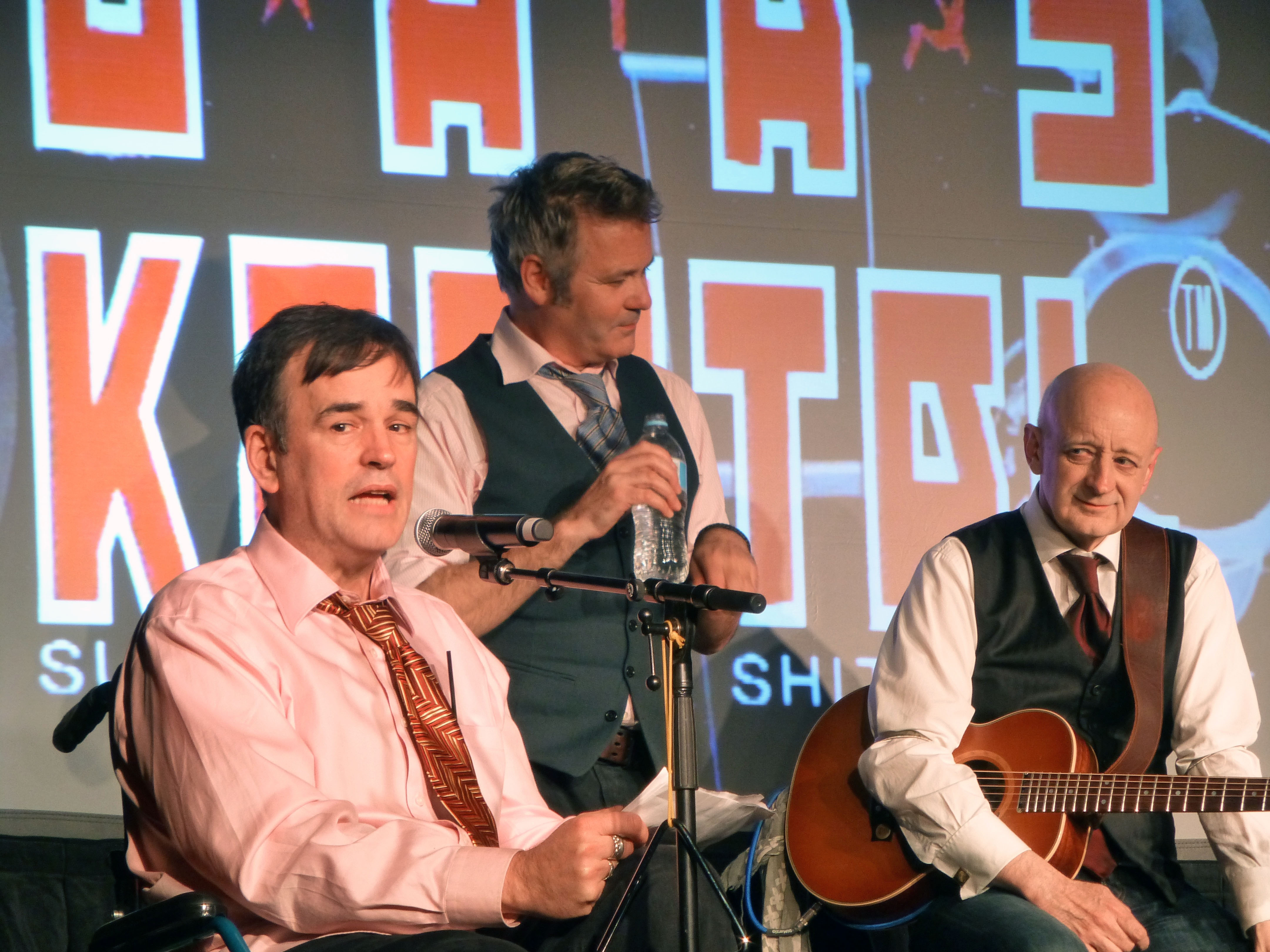 The Doug Anthony All Stars performing in Melbourne, Australia on the 2014 DAAS LIVE tour. From left: Tim Ferguson, Paul McDermott, Paul Livingston.